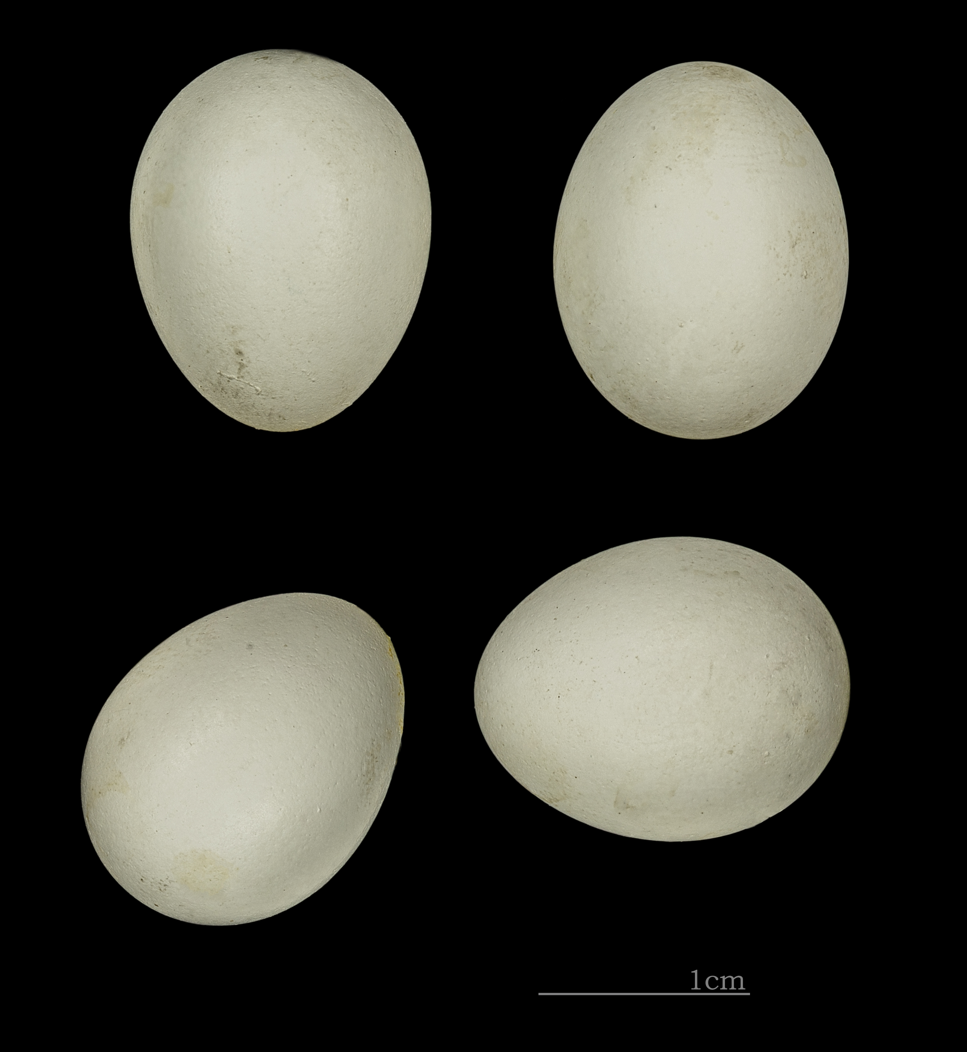 Egg of Western Crowned Warbler Collection of Henri Heim de Balsac /Jacques Perrin de Brichambaut.